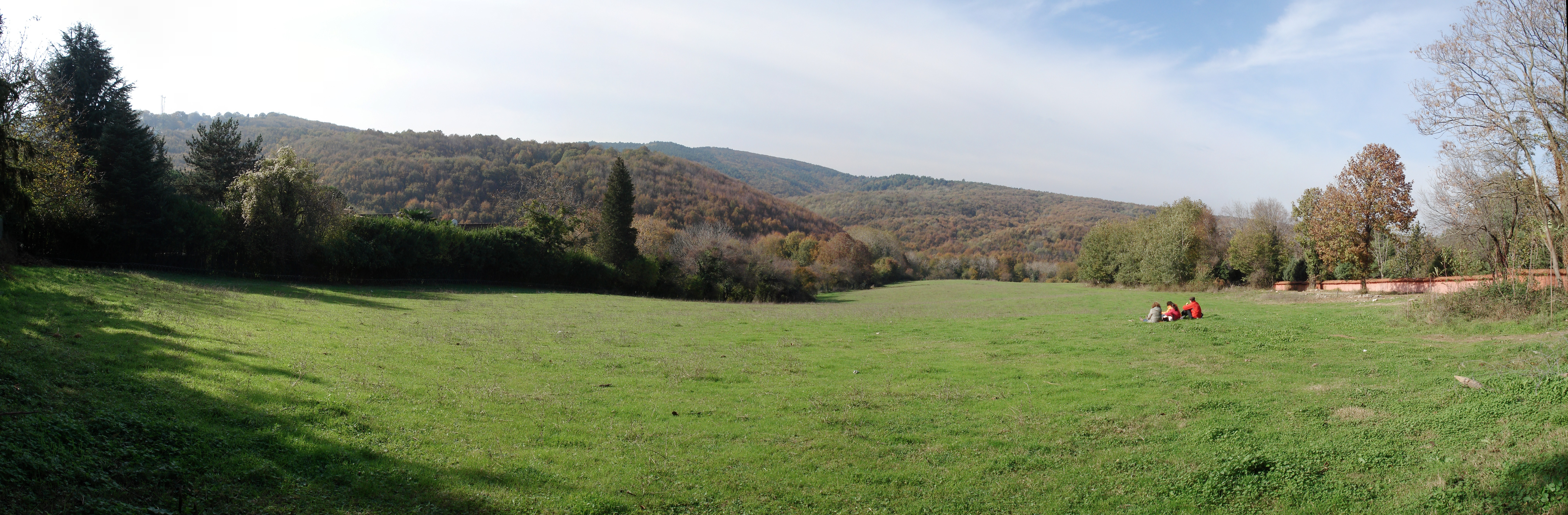 Panorama from Polonezköy